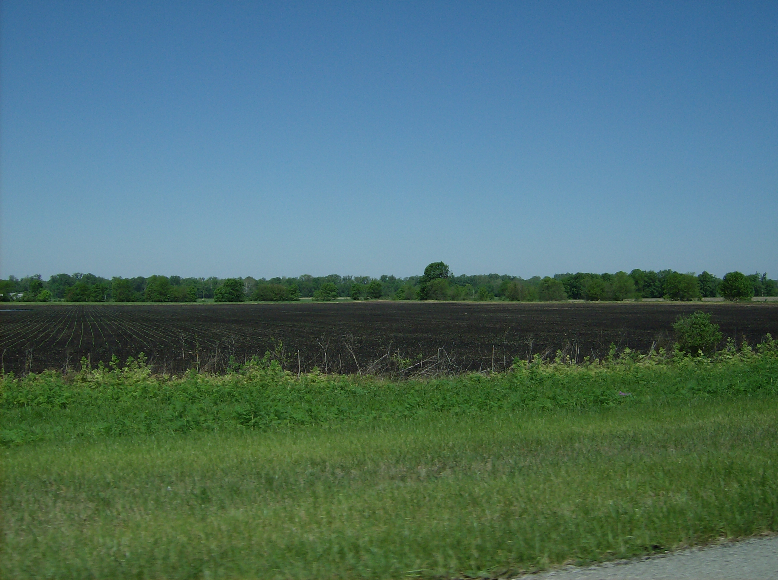 Countryside in far western German Township, Clark County, Ohio, Ohio, United States. Picture taken looking westward from U.S. Route 68.